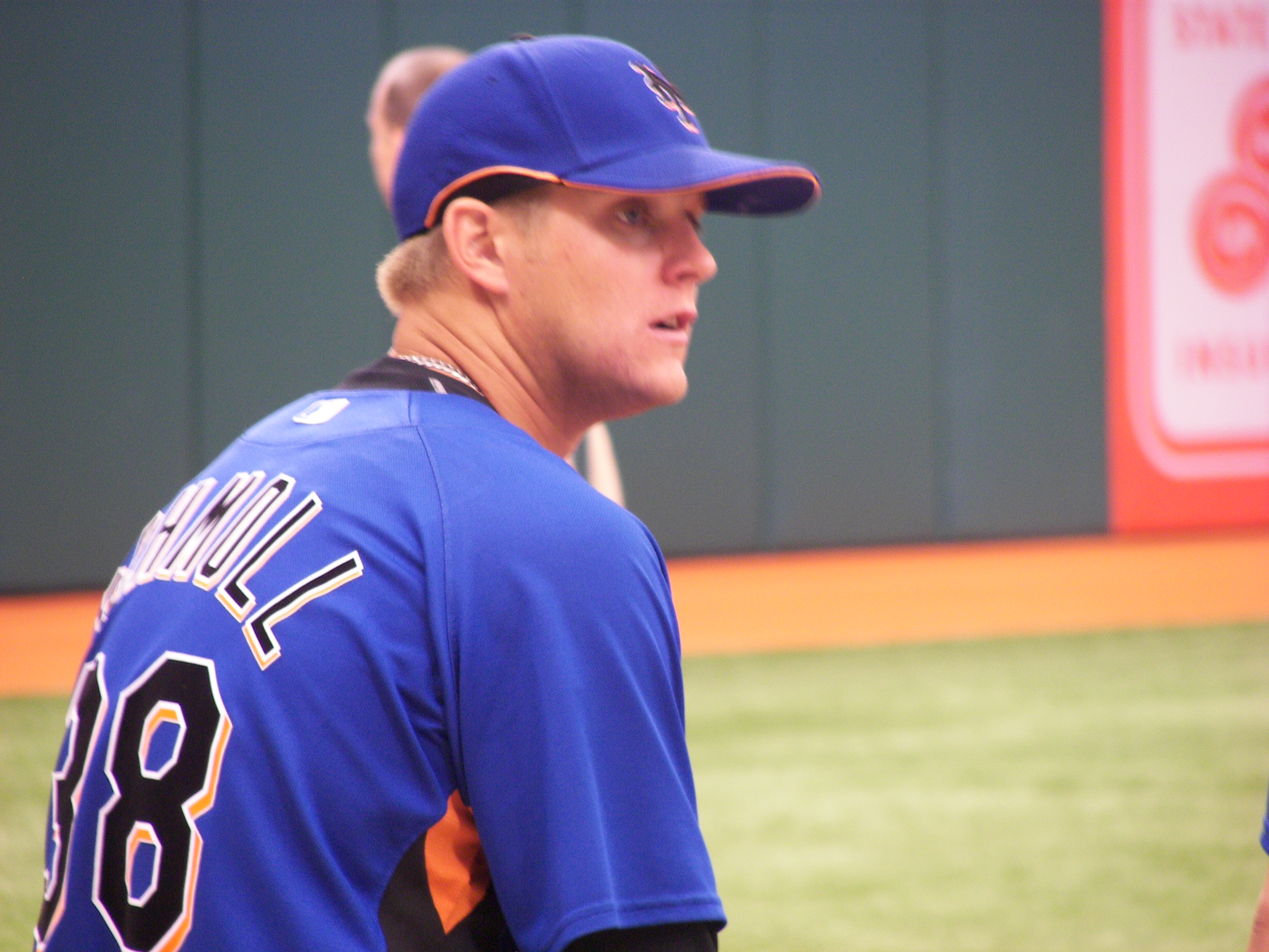 New York Mets pitcher Steve Schmoll before a Mets/Devil Rays spring training game at Tropicana Field in St. Petersburg, Florida.